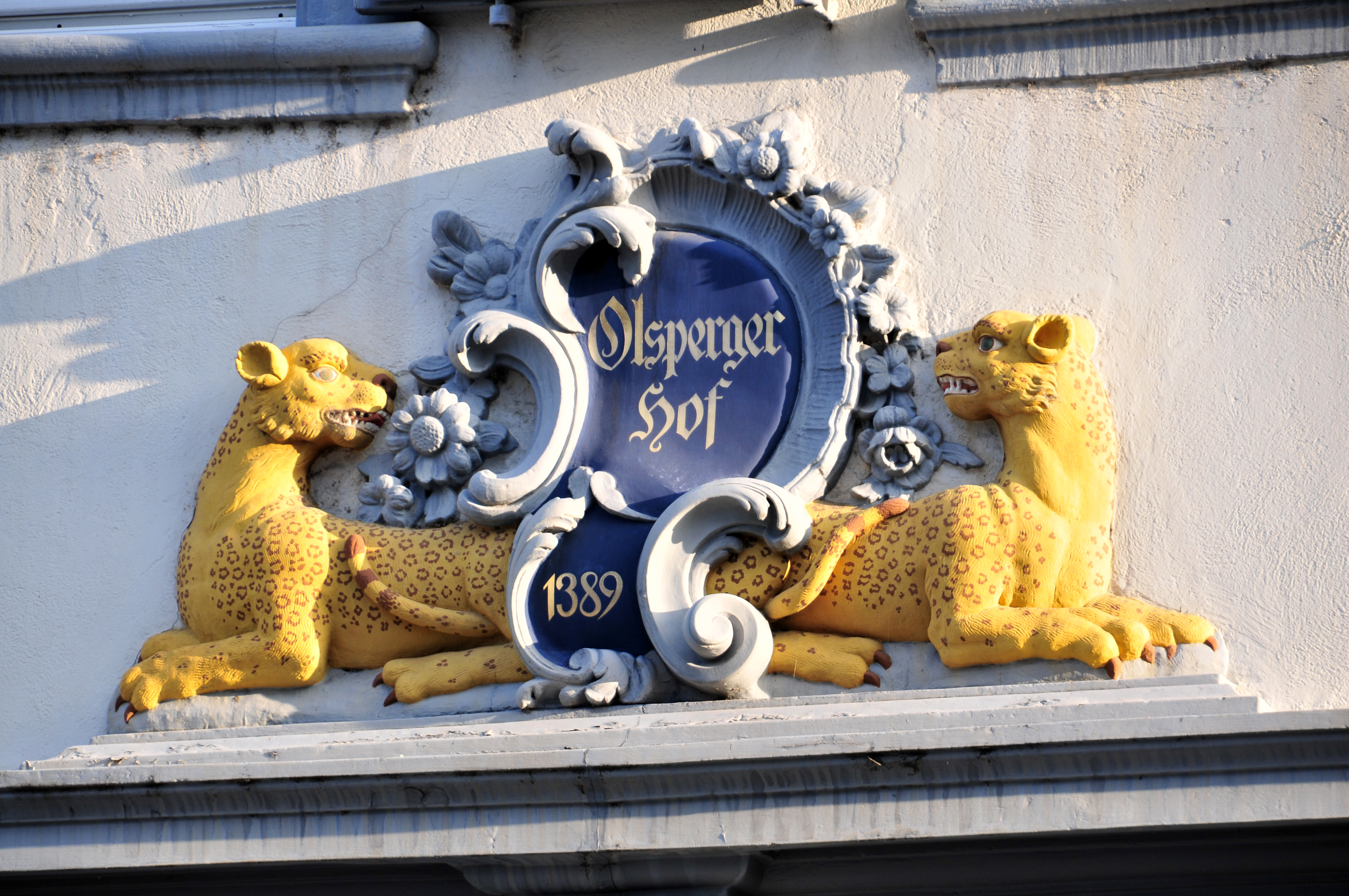 Detail of a door in Basel, Swizerland